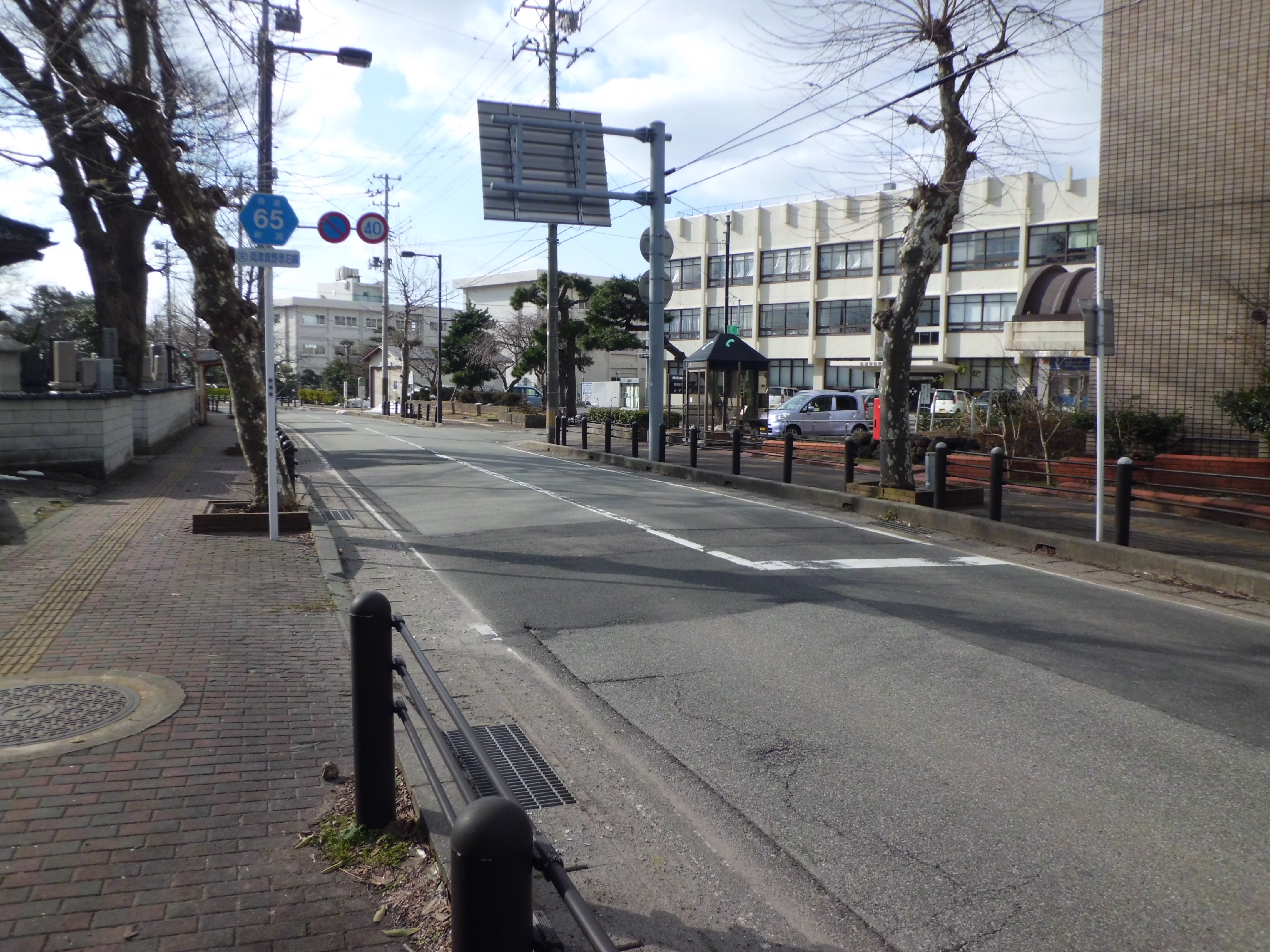 Niigata prefectural road 65 Ryotsu-Mano-Akadomari line. Looking south from Ryotsu Branch Office intersection, Ryotsuminato, Sado city.